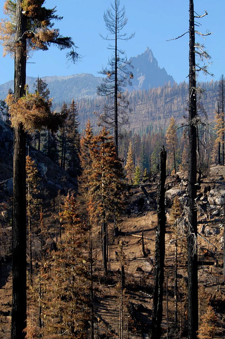 Area near Three Fingered Jack burned by B&B Complex Fires during the summer of 2003, Cascade Mountains, Oregon